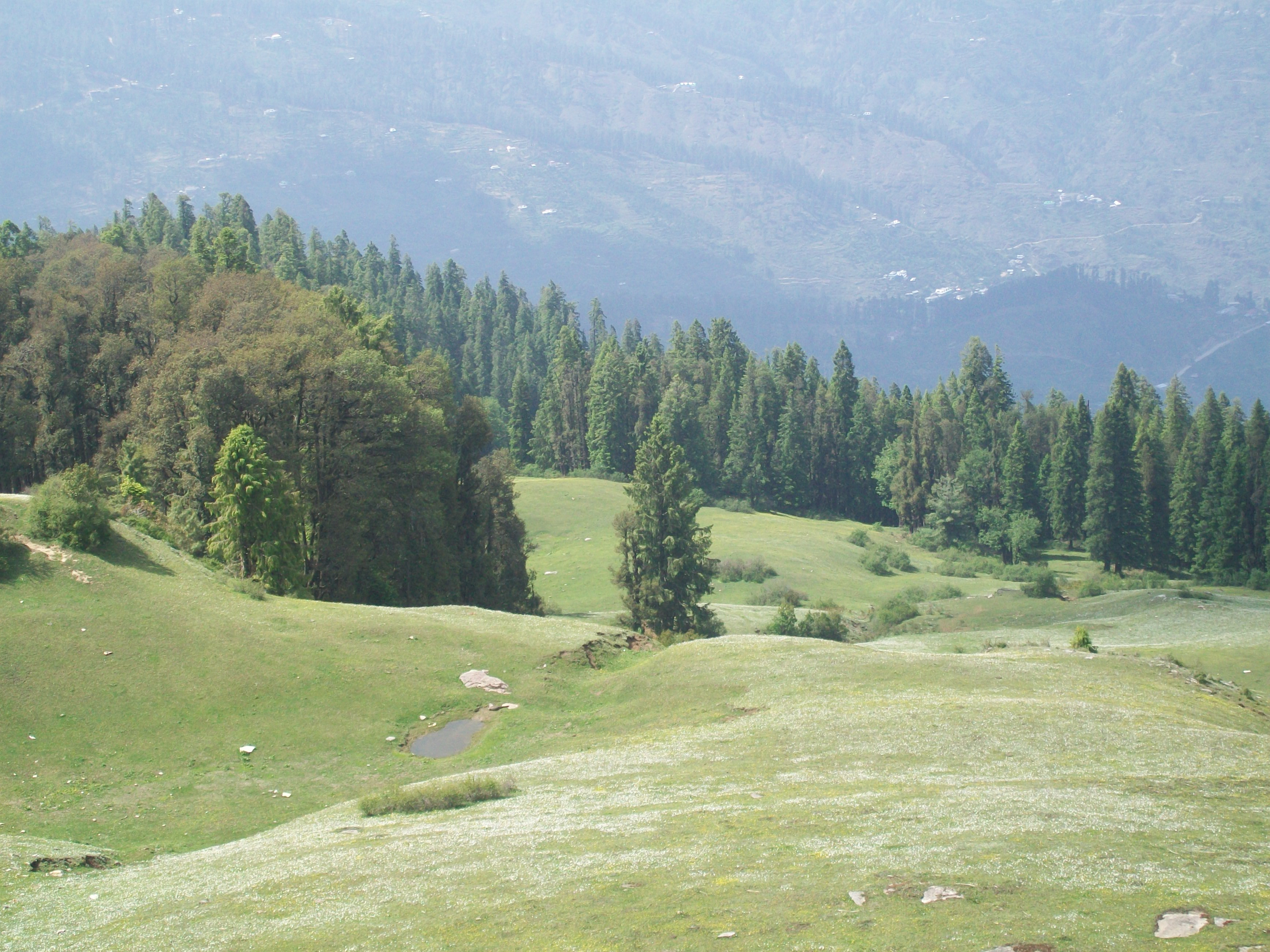 giriganga ground